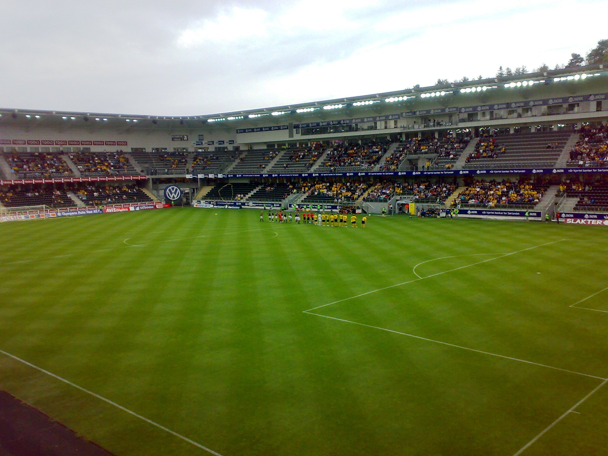 Sør Arena, Kristiansand (Norway)